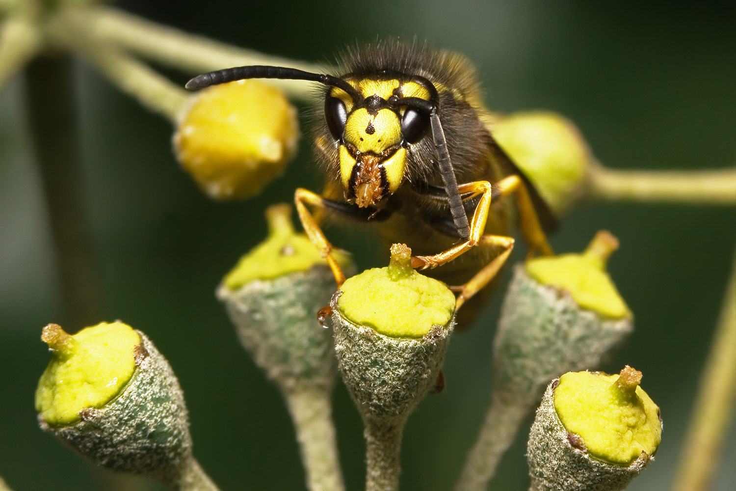 German wasp (Vespula germanica), Tasmania, Australia Camera data Camera Canon EOS 400D Lens Tamron EF 180mm f3.5 1:1 Macro Flash Softbox Focal length 180 mm Aperture f/9 Exposure time 1/200 s Sensivity ISO 100